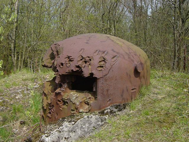 GFM cloche of the bloc 2, Ouvrage Kerfent, destroyed by german artillery the 21 June 1940.